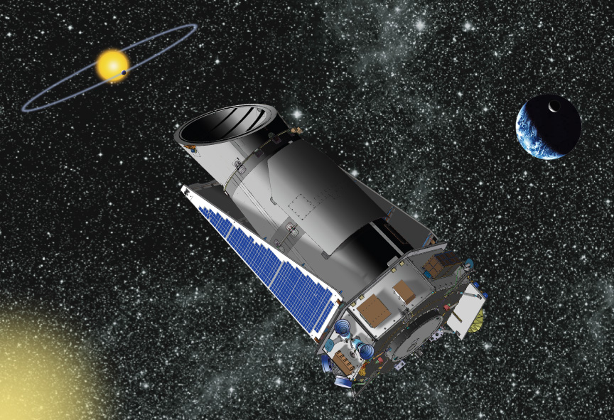 Illustration of NASA's Kepler telescope.